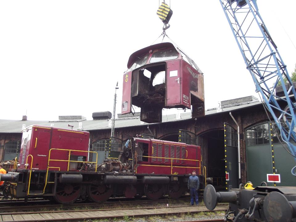 MaK 1200 D, railway museum Gummersbach-Dieringhausen